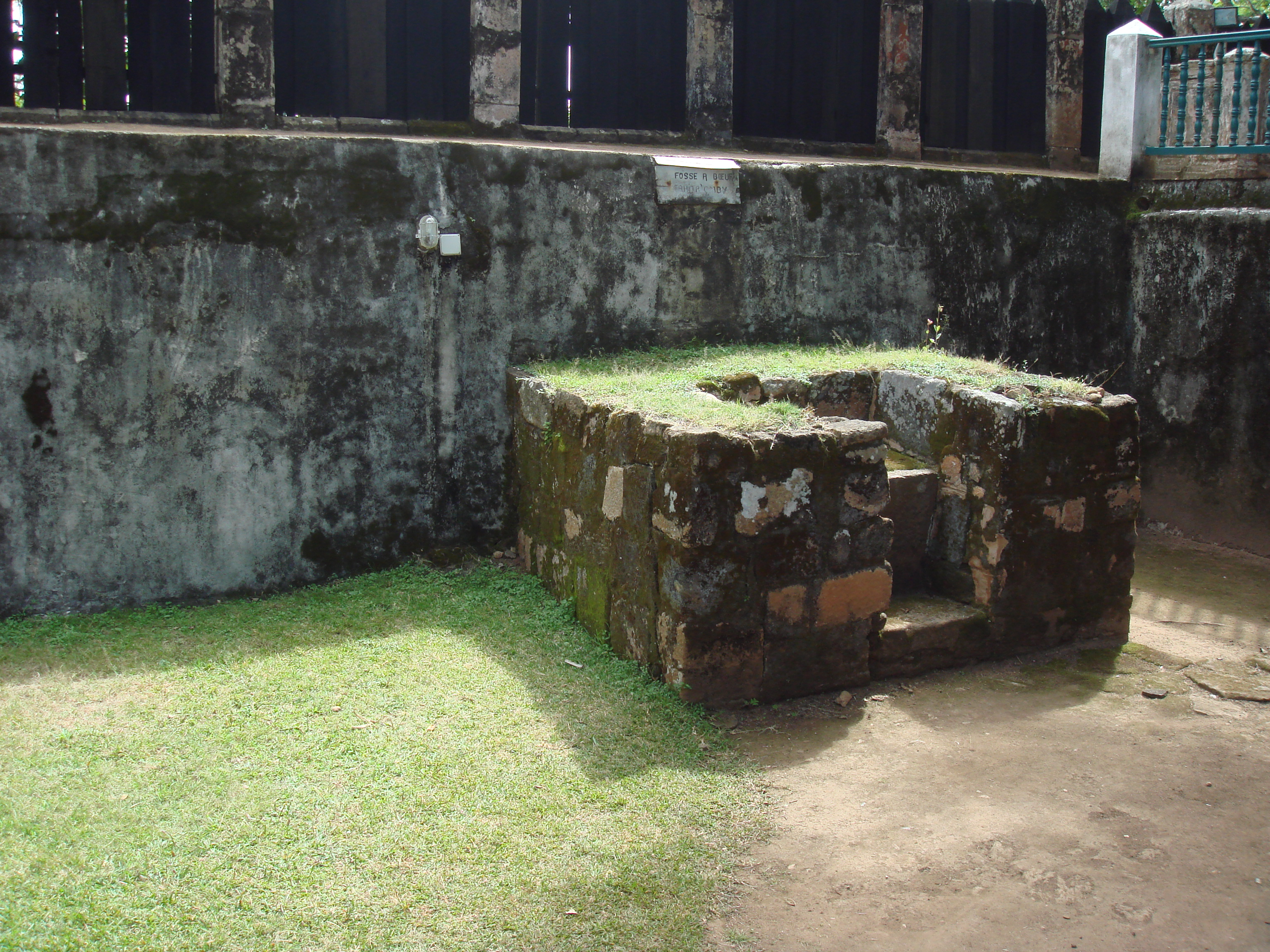 The water point where the sacred zebu could drink on the night before being sacrificed. Ambohimanga, Madagascar.